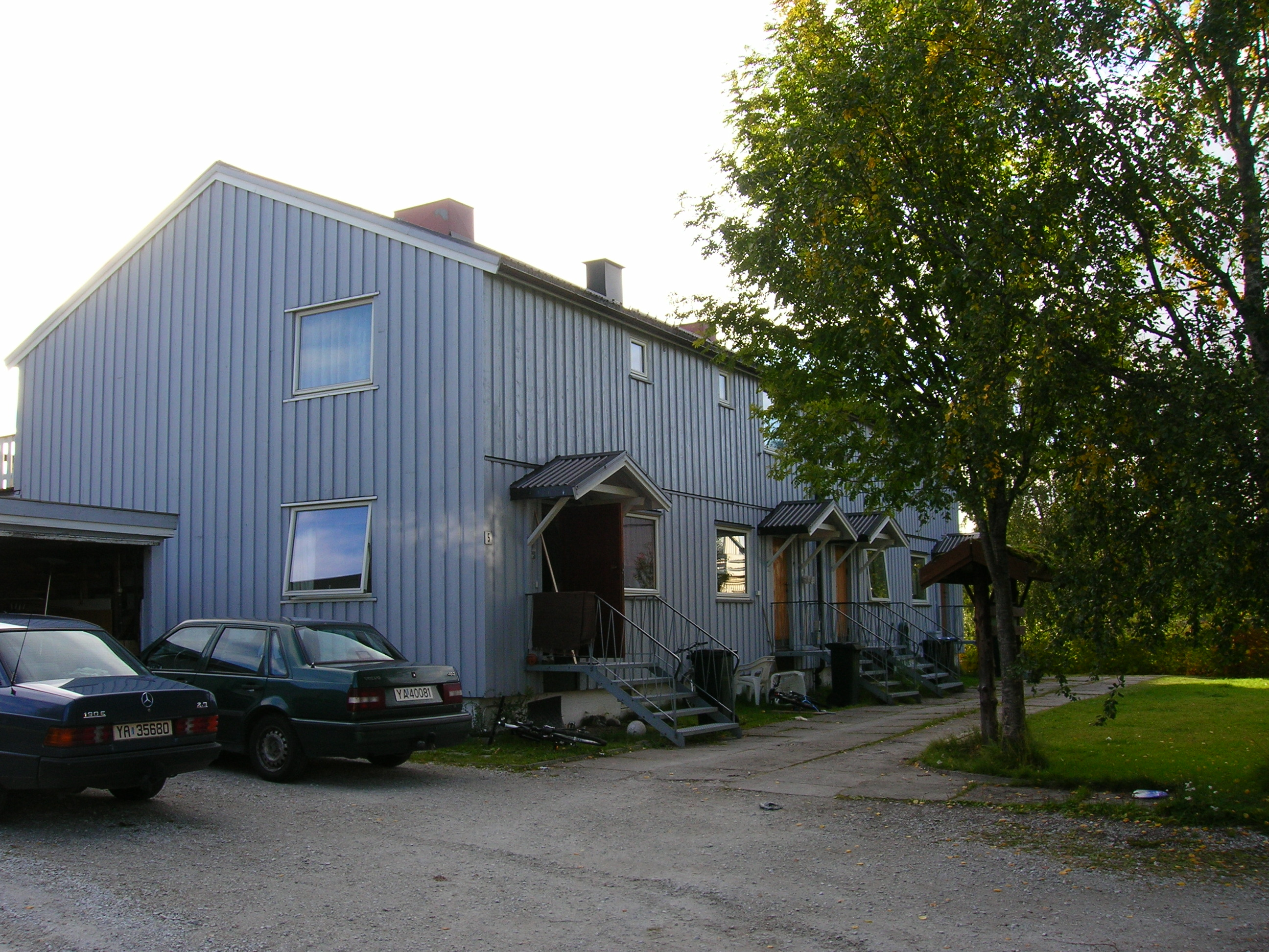 Selfors housing cooperative on Selfors, north of Mo i Rana, Rana municipality, county of Nordland, Norway, Photo 4 September, 2007 with a Nikon Coolpix 5600 5,1 Megapixel camera.